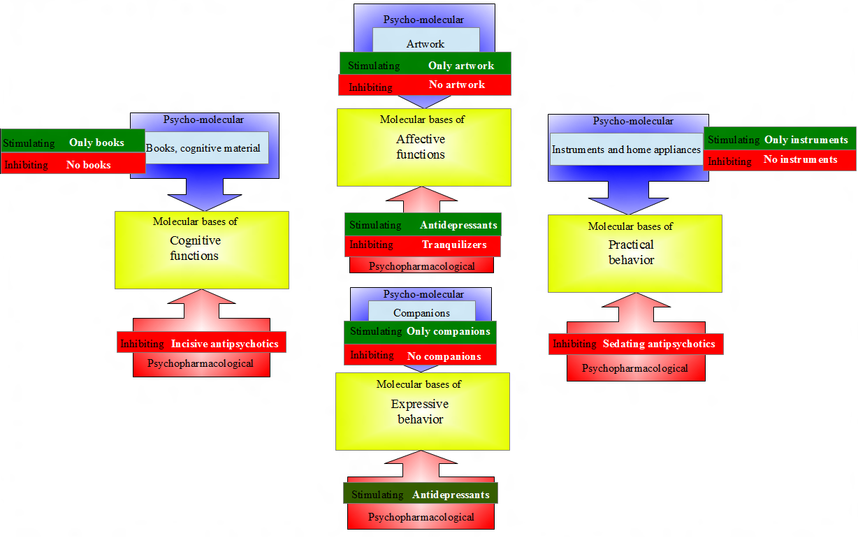 Based on information from Tapu, CS (2003). Dictionar de psihologie si psihopatologie: concepte actuale (in Romanian) Premier. pp. 120. ISBN 9738451132, and Tapu, CS (2007). "Burnout syndrome rehabilitation in agritouristic settings". Scientific Papers Series: Management, Economic Engineering in Agriculture and Rural Development 7.